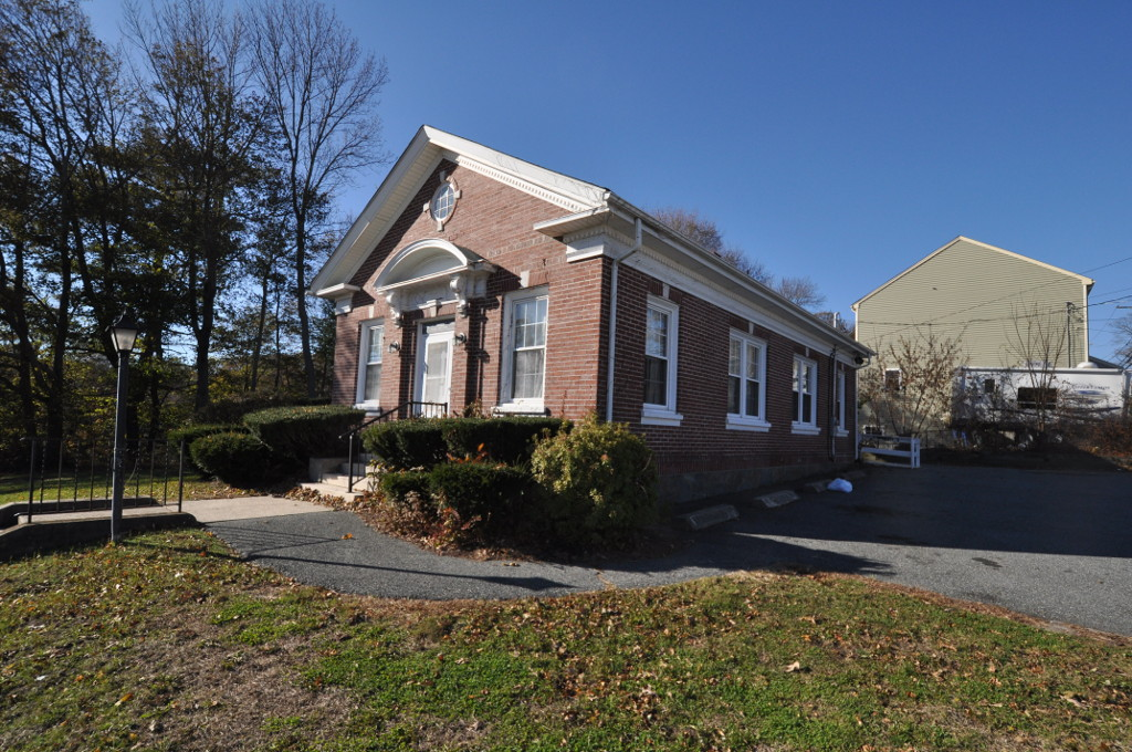 Saylesville Historic District, Lincoln, Rhode Island.